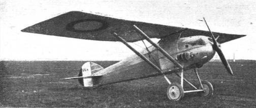 Wibault 3 C.1